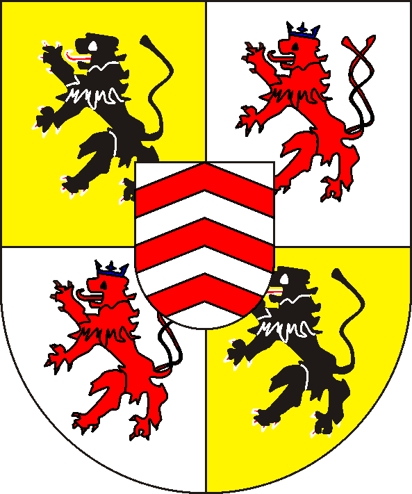 coat of arms, wrong !